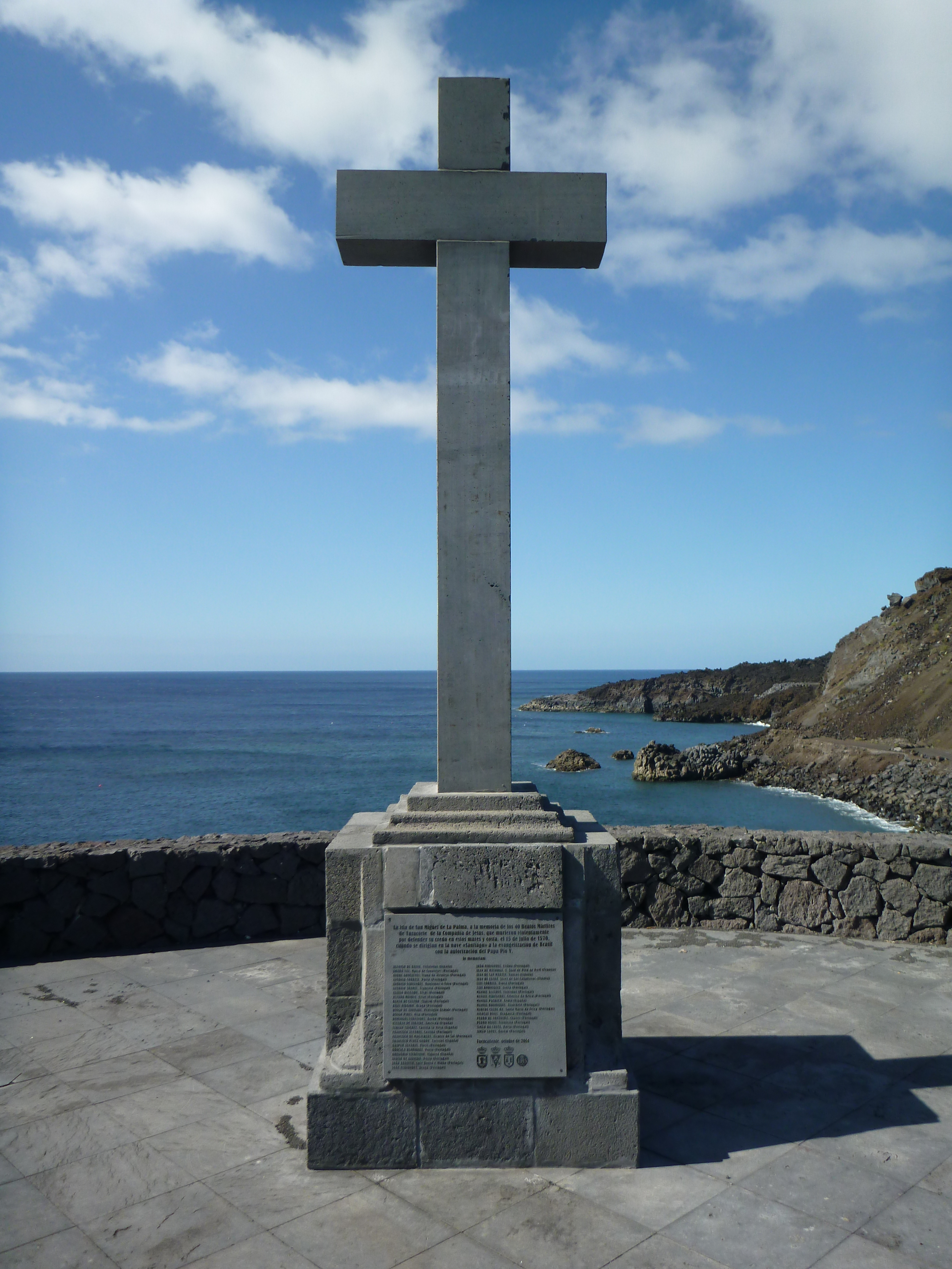 Monument at lighthouse Punta de Fuencaliente for the 40 Martyrs of Brazil, constructed in October 2014. On the plate, the 40 name are written down